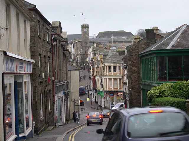 Redruth Town Centre from the West.